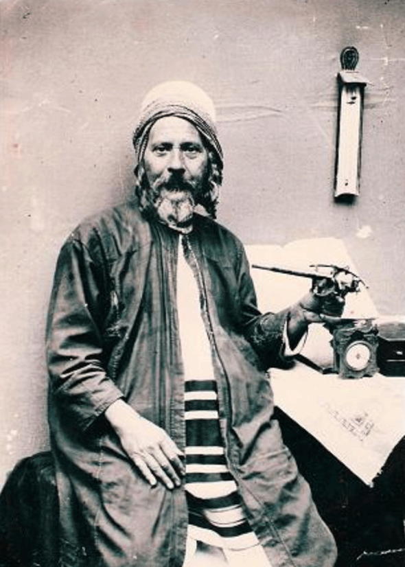 The following official portrait of Yihye Kafih, the anti-Zoharite Yemeni rabbi who seems to have posed with various instruments as a symbol of rationalism and scientific competence.